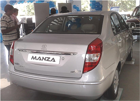 Tata Indigo Manza